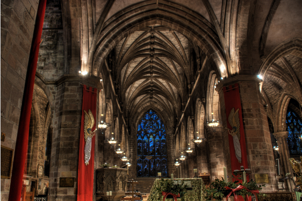 The nave of St. Giles' cathedral in Edinburgh.